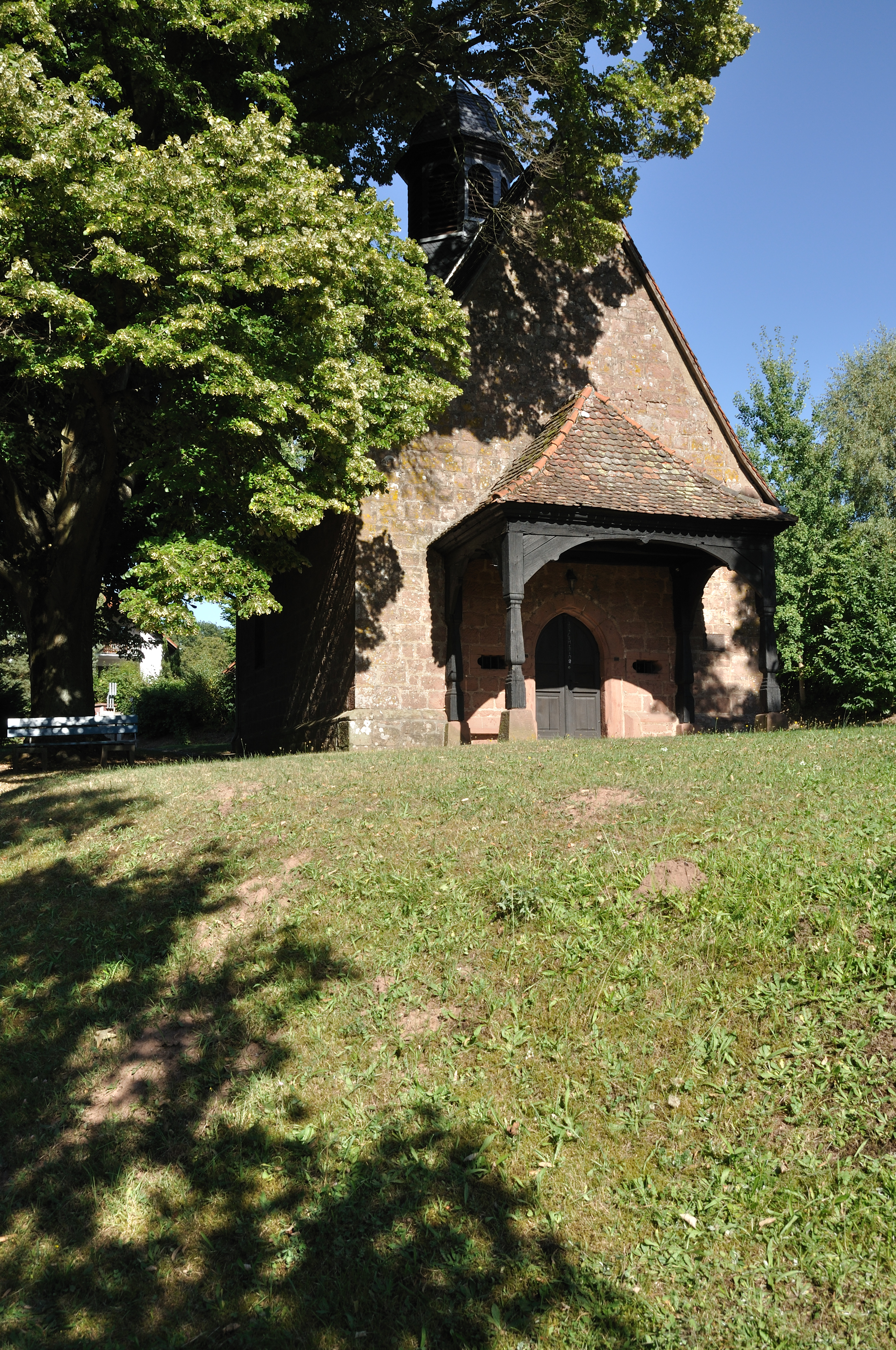 Chapel St. Katharina, 1512, Hauenstein (Pfalz), district Südwestpfalz, Rhineland-Palatinate, Germany